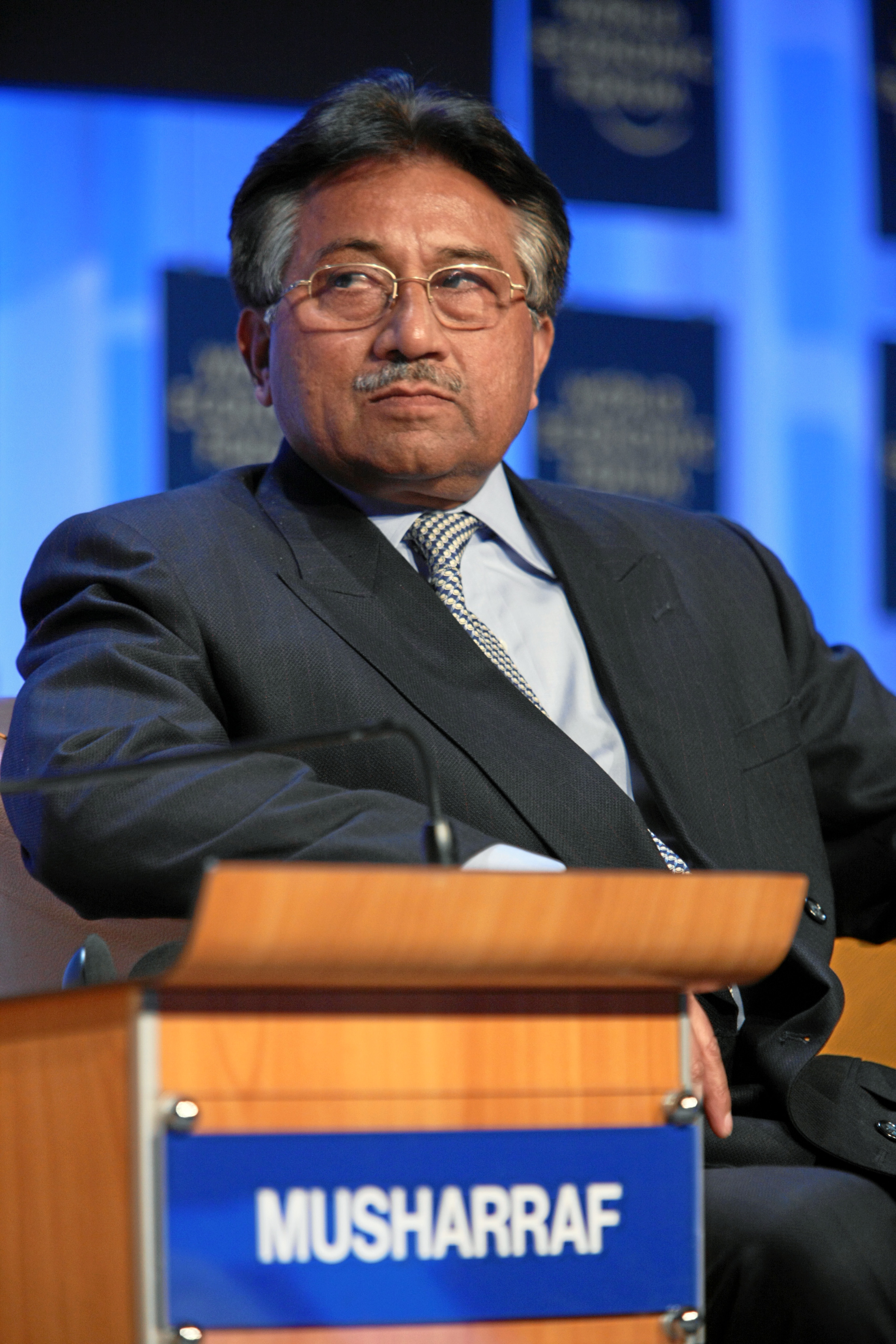 DAVOS/SWITZERLAND, 24JAN08 - Pervez Musharraf, President of Pakistan captured during the session 'Three Crucial Questions for the President of Pakistan, Pervez Musharraf' at the Annual Meeting 2008 of the World Economic Forum in Davos, Switzerland, January 24, 2008.